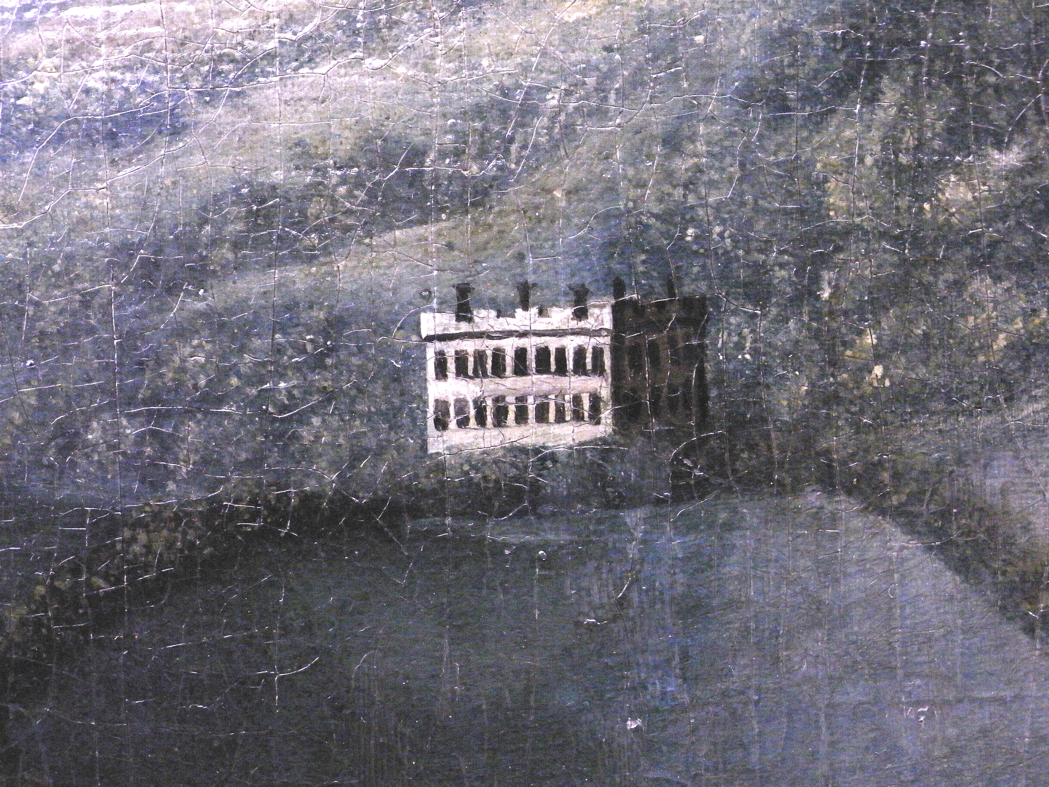 Crenellated grand mansion house possibly Pilton House in the parish of Pilton, near Barnstaple, North Devon, a Georgian mansion house built in 1746 by Robert Incledon (1676-1758), twice Mayor of Barnstaple, whose very ancient family originated at the manor of Incledon, near Braunton. It is situated almost in the centre of the ancient town of Pilton, but had formerly extensive grounds covering at least 20 acres, which extended down "Pilton Lawn", now built over, to the River Yeo. It later served as the residence for various Members of Parliament for Barnstaple, for which it was well suited being only a 10-minute walk from the centre of that town, yet in a secluded situation with extensive grounds, and sufficiently large and grand for entertaining borough officials and electors. Detail from an undocumented 18th century (?) oil painting now in the Museum of Barnstaple and North Devon, Barnstaple, showing a distant view from the west bank of the River Taw, of the adjacent towns of Barnstaple and Pilton. Museum of Barnstaple and North Devon has no information, whether regarding provenance, date or subject matter, on this very large painting hanging on the wall of the first floor, which dominates the staircase of the museum building in Barnstaple. The house depicted is a central element in the composition, thus it was possibly commissioned by Robert Incledon (1676-1758) himself, and donated to the Borough of Barnstaple by him.